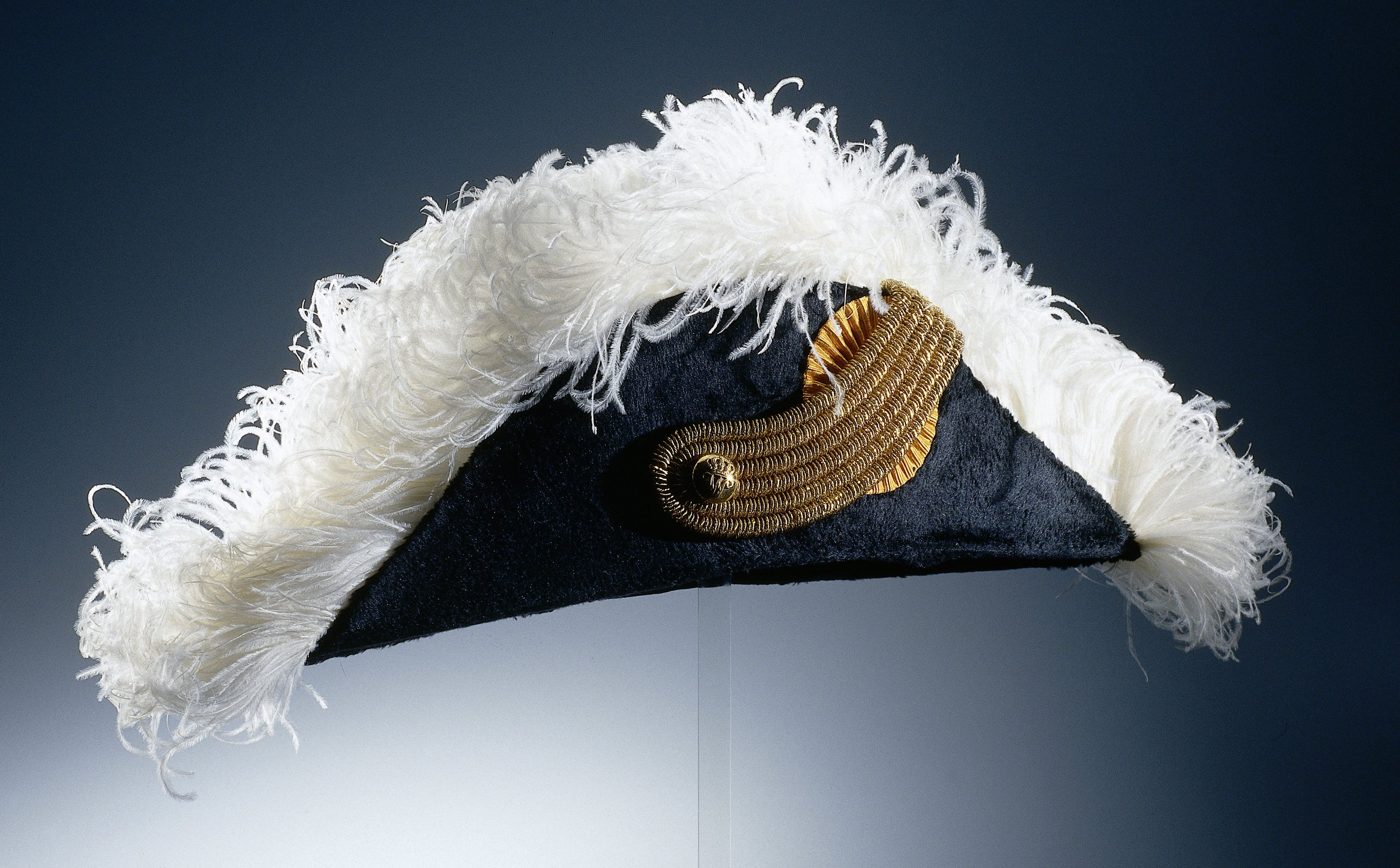 Steek met witte struiskam, behorend bij het ambtskostuum van Jan van den Tempel gedragen bij de opening van de Staten-Generaal toen hij minister van Sociale Zaken was. struisvogelveer textiel goudgalon